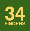 I, the Silent Wind of Doom made this picture on MSPaint to serve as a retired number on the Oakland Athletics page